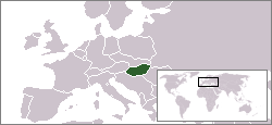 Location of the People's Republic Hungary in Europe (1945–1990)